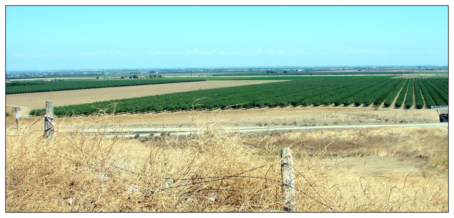 The Sacramento valley is a vista of crops as far as the eye can see. Produce includes tomatoes, almonds, grapes, cotton, apricots, asparagus, and garlic. This valley, sometimes called 'America's Breadbasket,' stretches 450 miles in length.